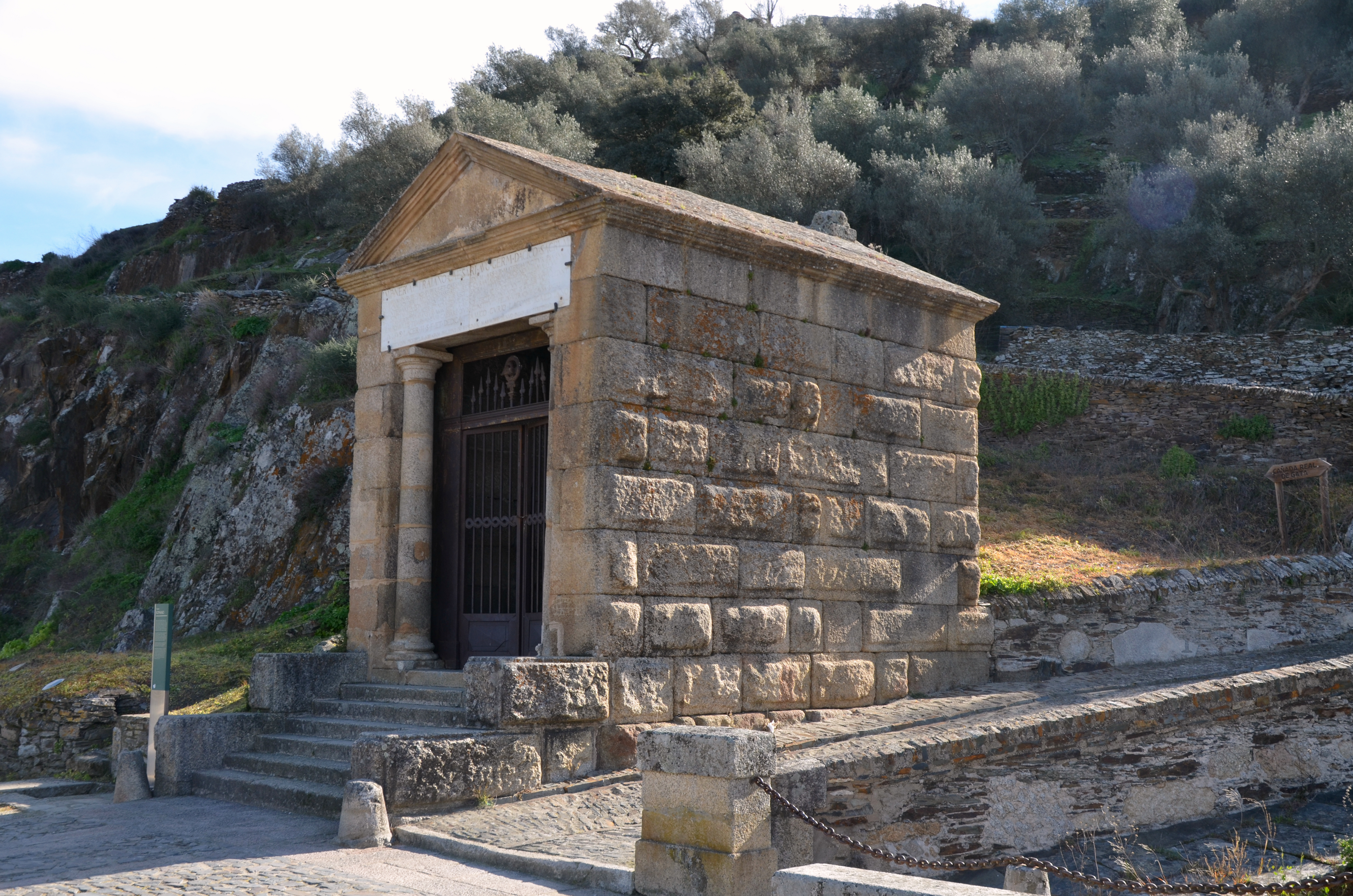 The small votive temple, distyle in antis, of Tuscan order with a single cella, built by a man named Caius Julius Lacer, and dedicated to the Roman emperor Trajan and the Roman Gods, Spain